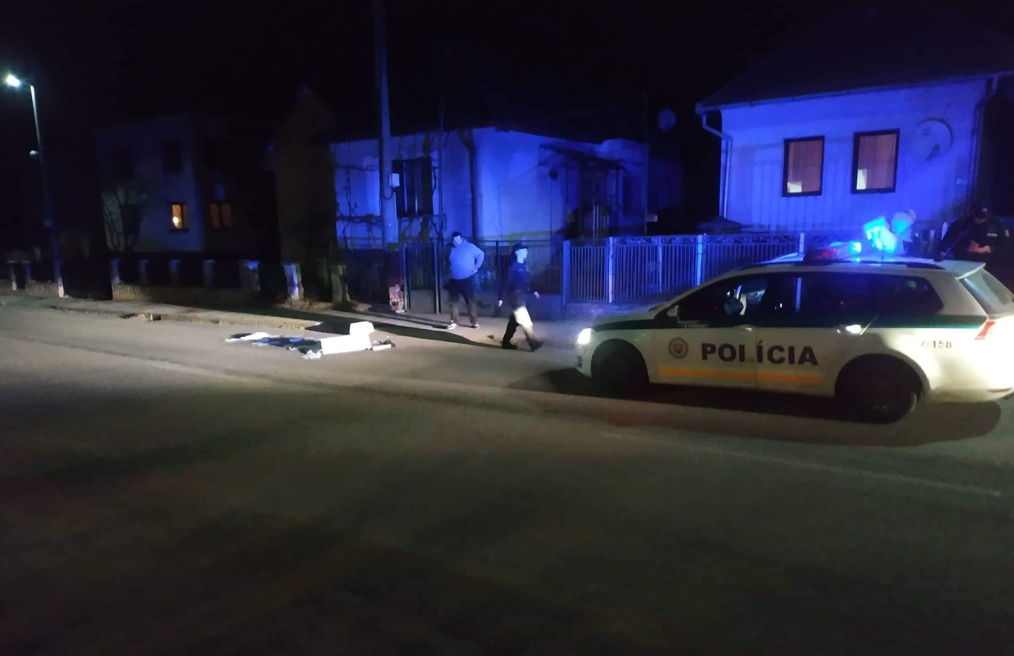 Stolen and destroyed ballot box in Medzany, Slovakia, 16 March 2019